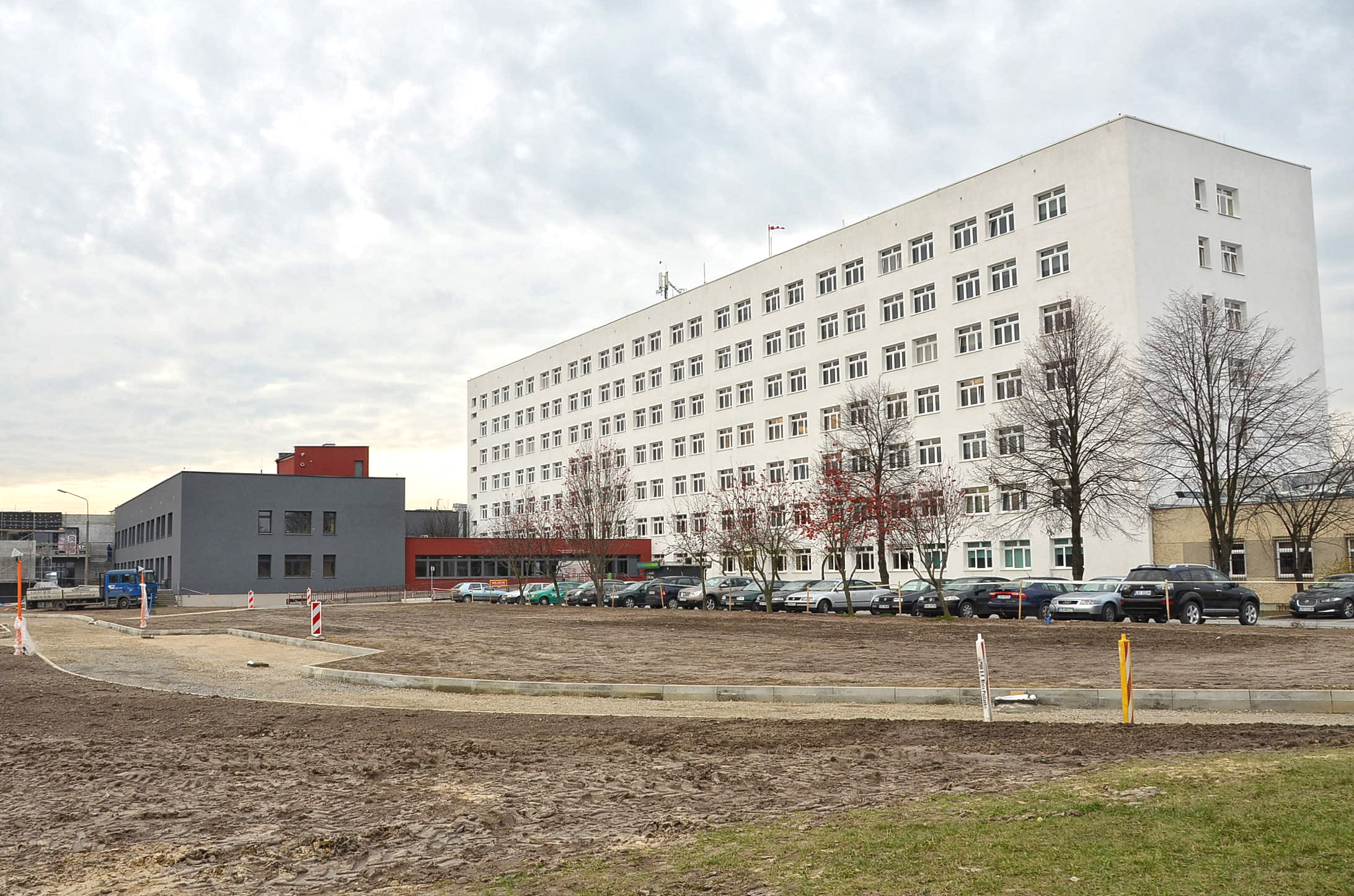 County Hospital in Biała Podlaska.